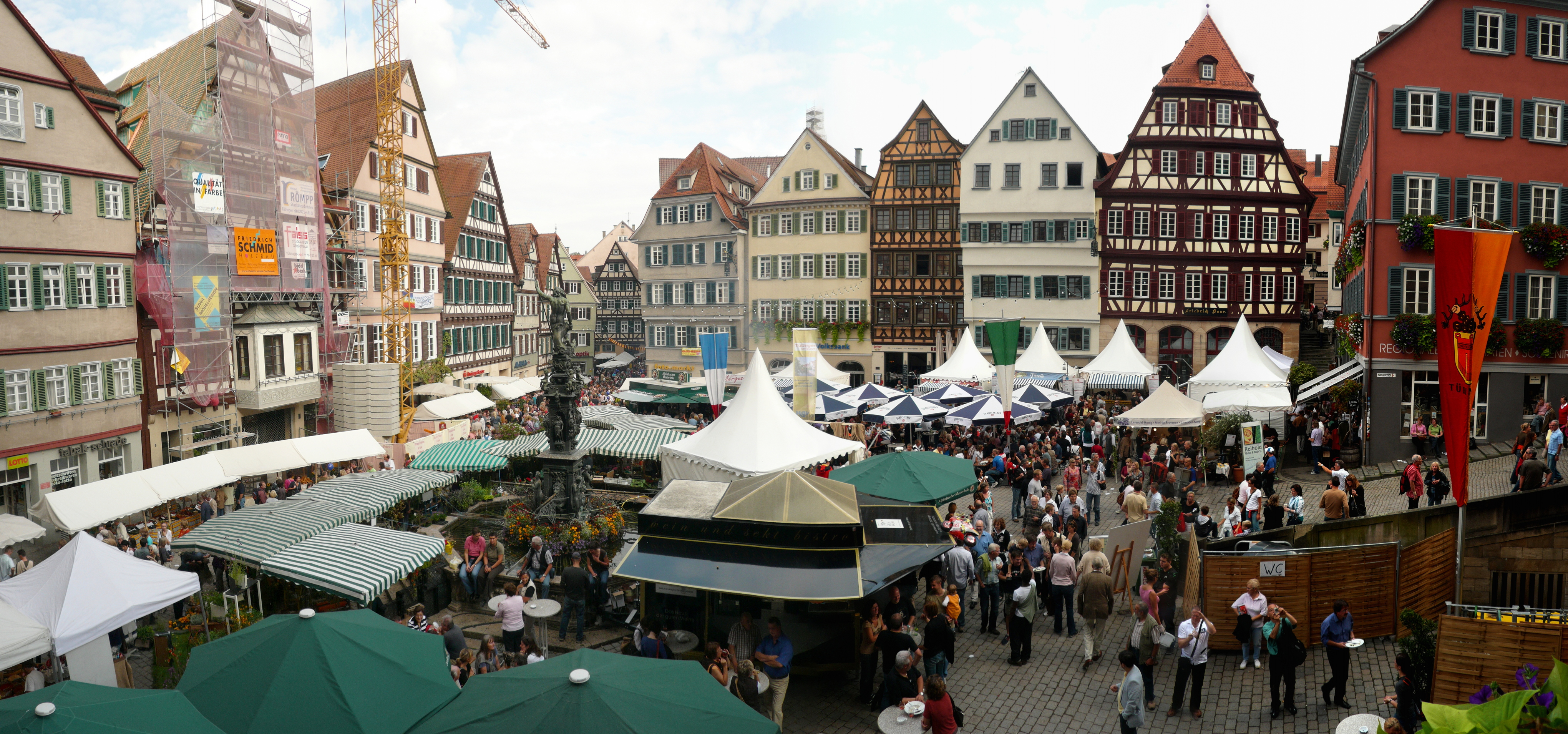 Market place of Tuebingen